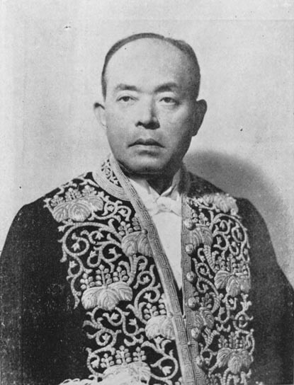 Arata Osada, 7th director of the Hiroshima Higher Normal School.